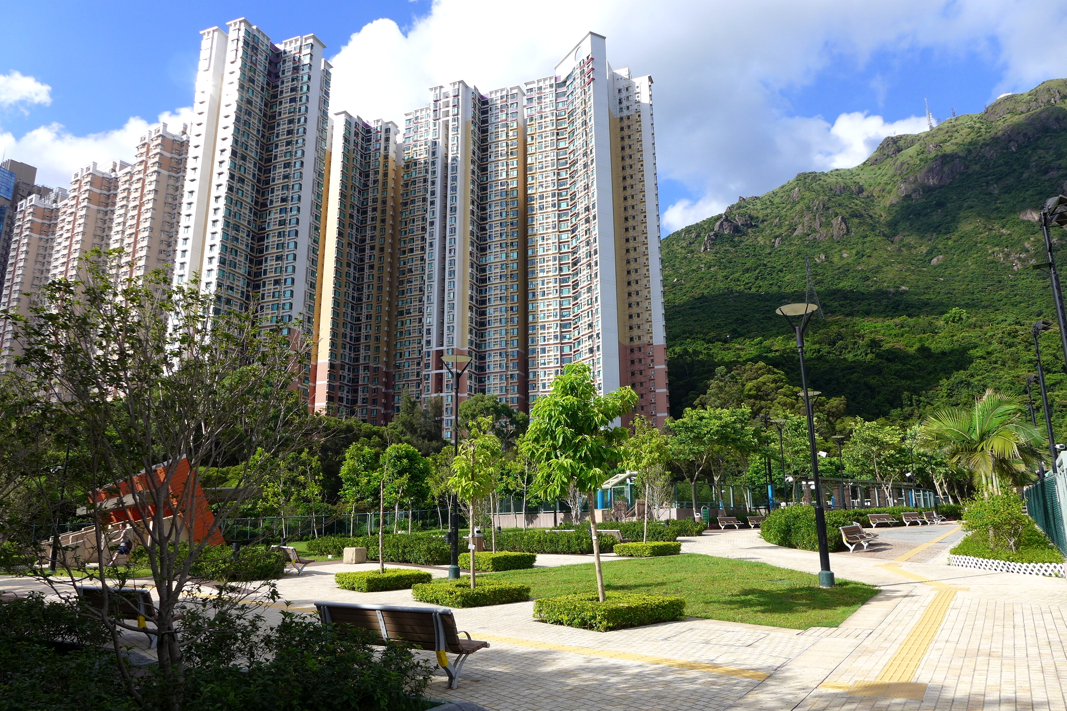 Ngau Chi Wan Park Platform on the East side of Fung Shing Street